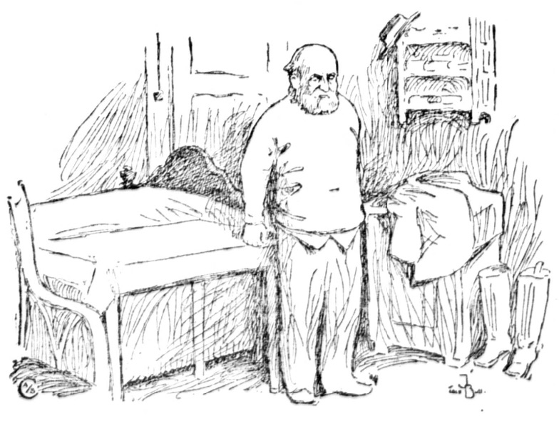 Drawing of Ole Paus Ibsen (brother of Henrik Ibsen) by Johan Bull, Aftenposten, 1915